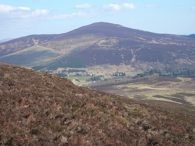 Meall Easganan towards Mount Blair Heathery slopes drop steeply eastwards into Glen Shee, with Mount Blair prominent across the glen.